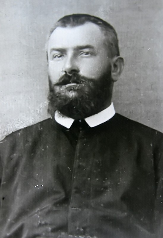 Fr. Jeremiah Lomnyckyj, OSBM